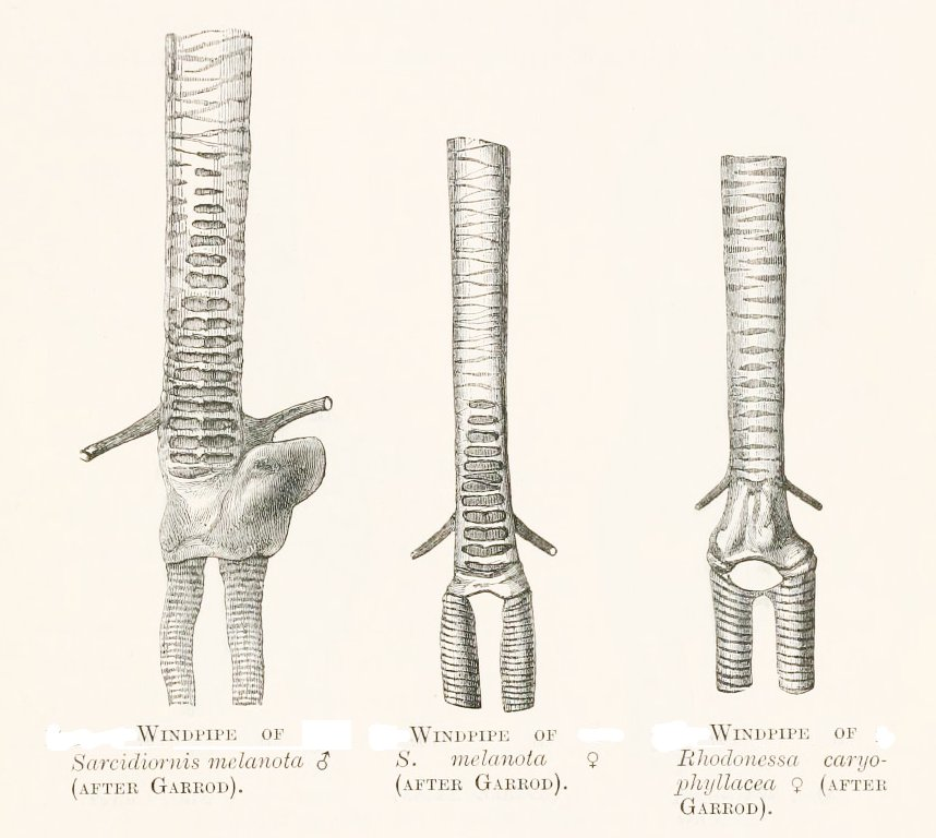 Windpipes of Sarkidiornis and Rhodonessa